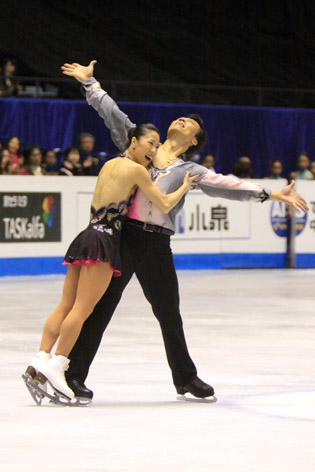 Shen Xue and Zhao Hongbo at the 2009-2010 Grand Prix of Figure Skating Final.